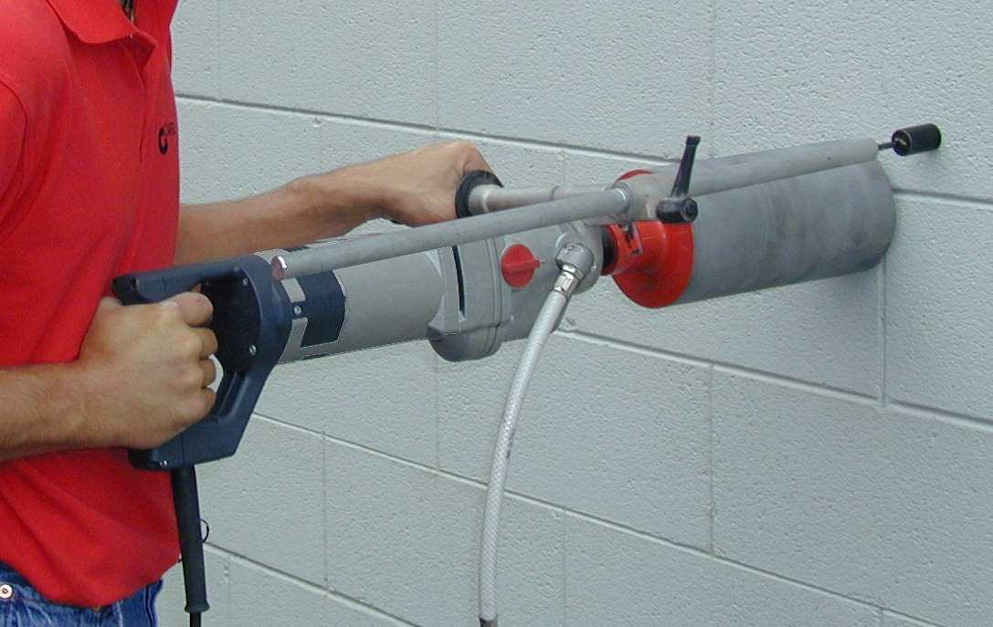 hand held core drill